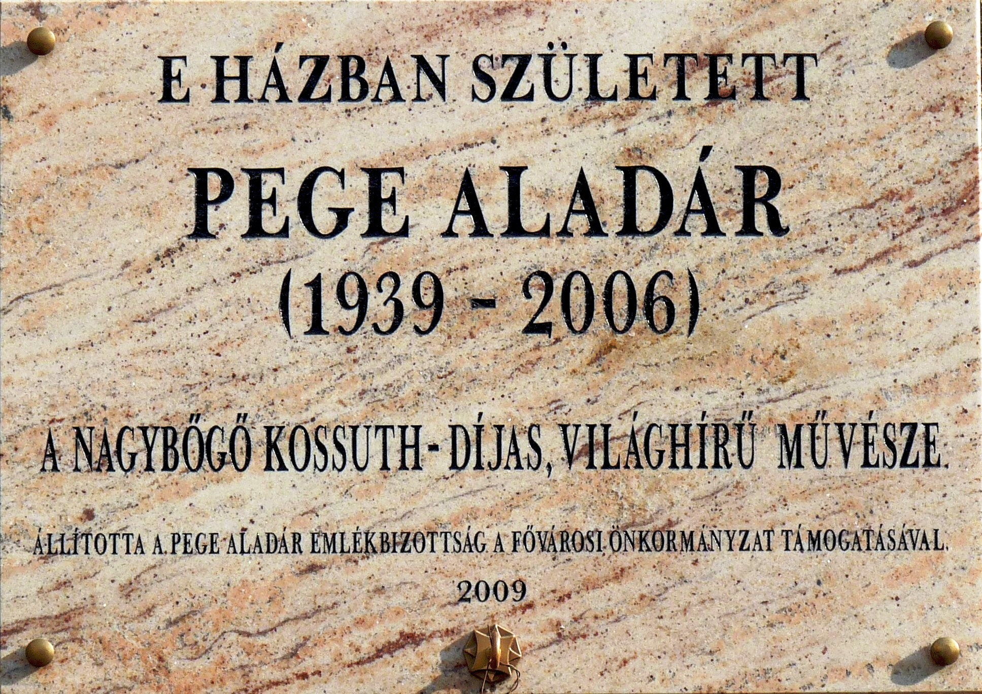 Commemorative plaque to Mr. Aladár Pege (1939–2006), Hungarian jazz musician, affixed to the wall of the house where he was born. (Budapest, District VIII, Víg Street Nr 20).